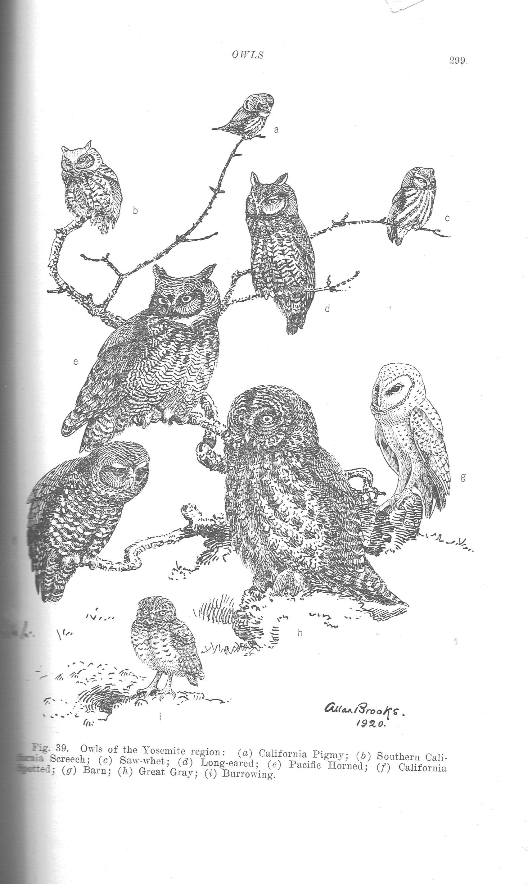 A sketch titled "Owls of the Yosemite Region" from the book Animal Life in the Yosemite.